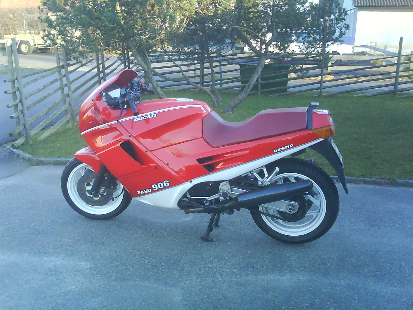 This is my Ducati 906 Paso 1989, pic taken by myself in late March 2007. LarRan 17:51, 17 August 2007 (UTC)